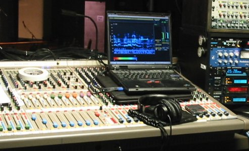 Smaart software running on an IBM laptop which is perched atop an APB Dynasonics mixing console at Yoshi's nightclub in San Francisco. Smaart software running on IBM Thinkpad APB-DynaSonics Spactra Large-Format VCA Console